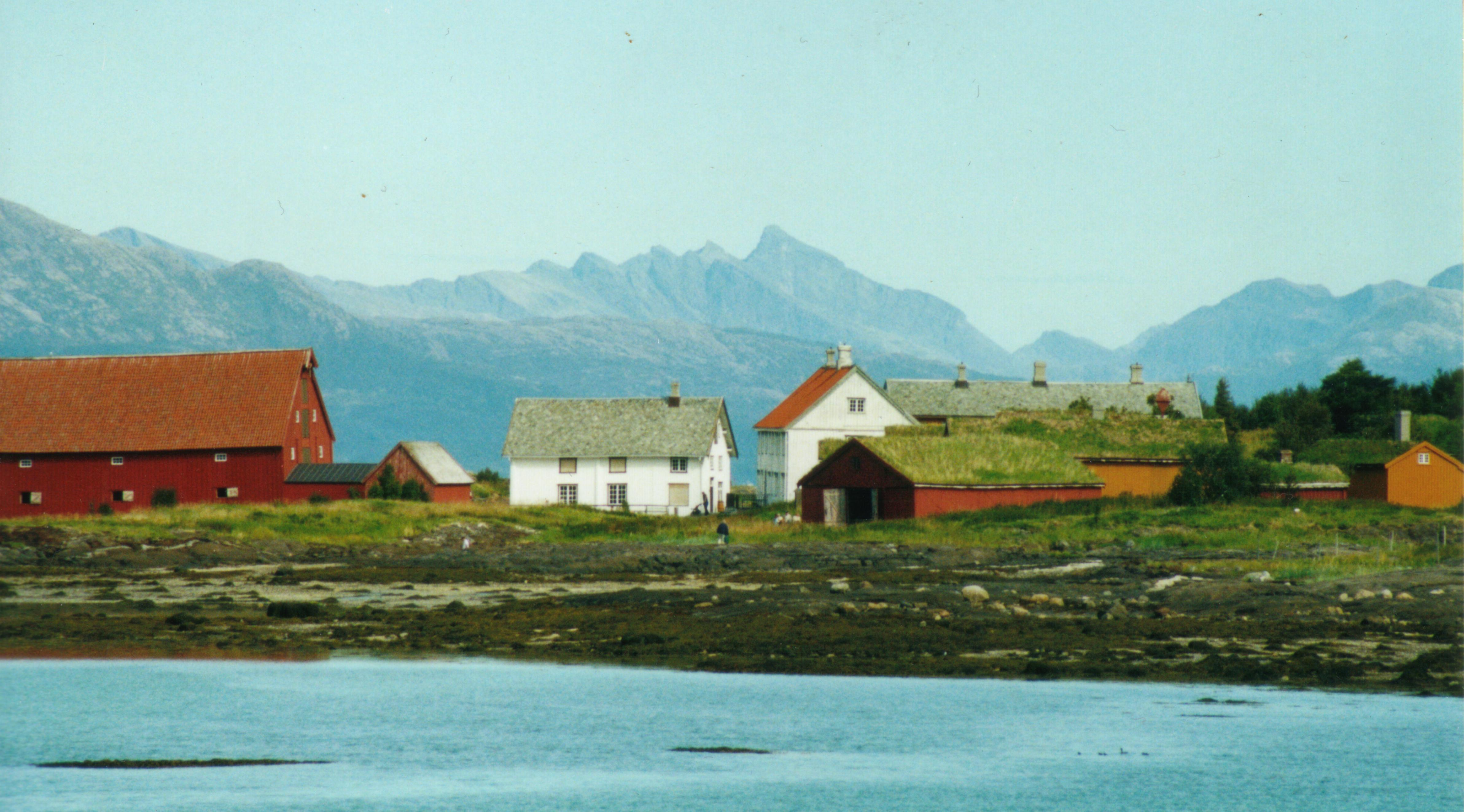 Kjerringøy tradingpost